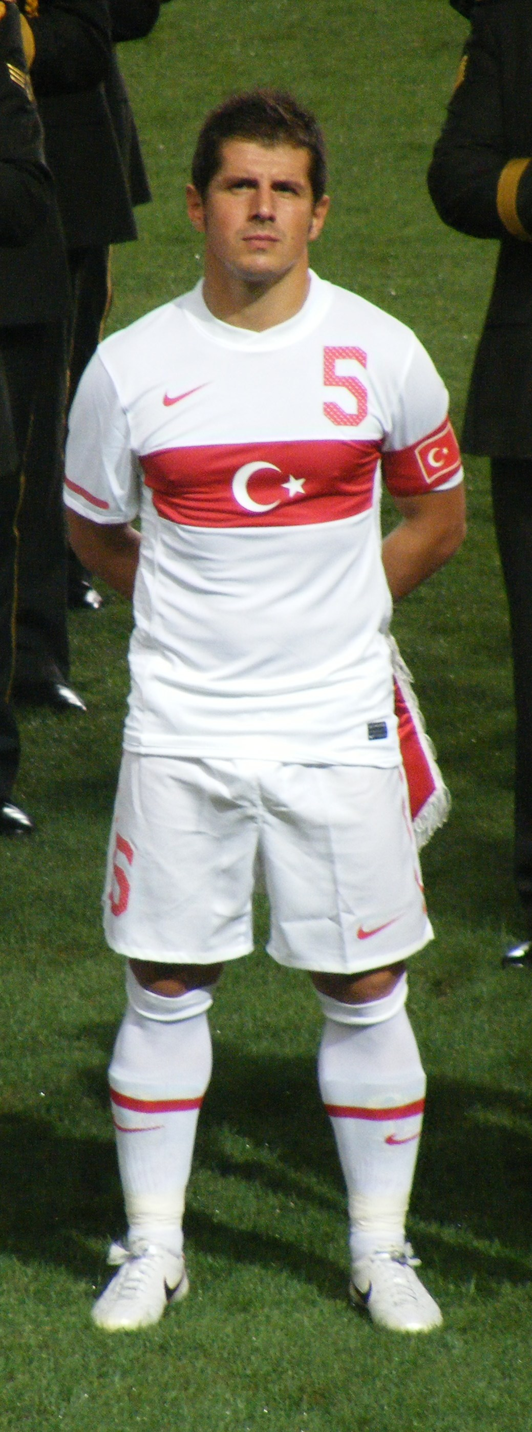 Emre Belozoglu in national jersey at match vs Romania in 11st Aug 2010, Wednesday at Fenerbahce Stadium, Istanbul